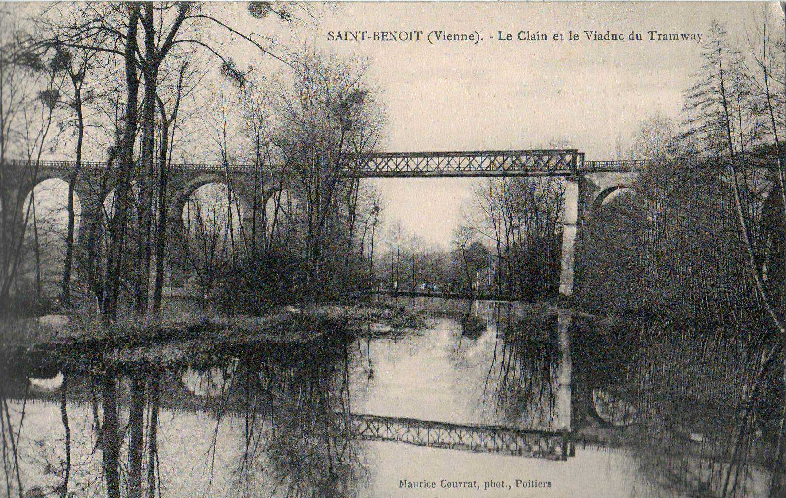 Caption: "SAINT-BENOIT (Vienne). - Le Clain et le viaduc du Tramway" / "Maurice Couvrat, phot., Poitiers"